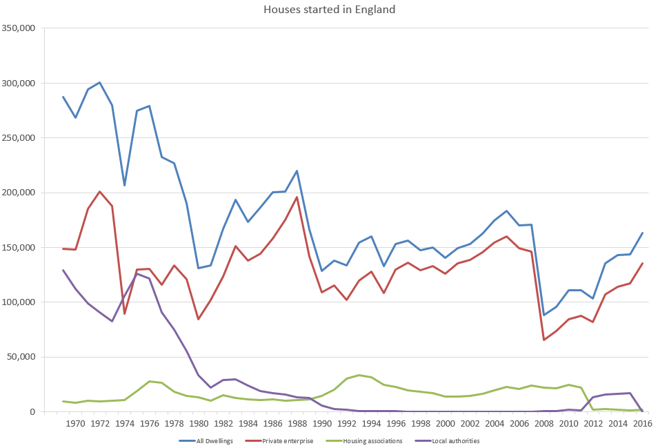 Housing starts in England 1969-2016[1]